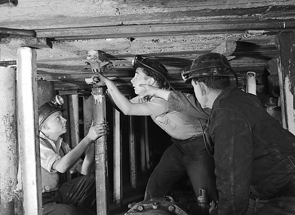 The Aberaman Miners' Training CentreCymraeg: Teitl Cymraeg/Welsh title: Canolfan Hyfforddi Glowyr Aberaman Ffotograffydd/Photographer: Geoff Charles (1909-2002) Dyddiad/Date: 5/10/1951 Cyfrwng/Medium: Negydd ffilm / Film negative Cyfeiriad/Reference: (gch02235) Rhif cofnod / Record no.: 3368274 Rhagor o wybodaeth am gasgliad Geoff Charles yn Llyfrgell Genedlaethol Cymru More information about the Geoff Charles Collection at the National Library of Wales Mae ffotograffau Geoff Charles hefyd yn rhan o Broject Europeana Libraries Geoff Charles' photographs also form part of the Europeana Libraries Project